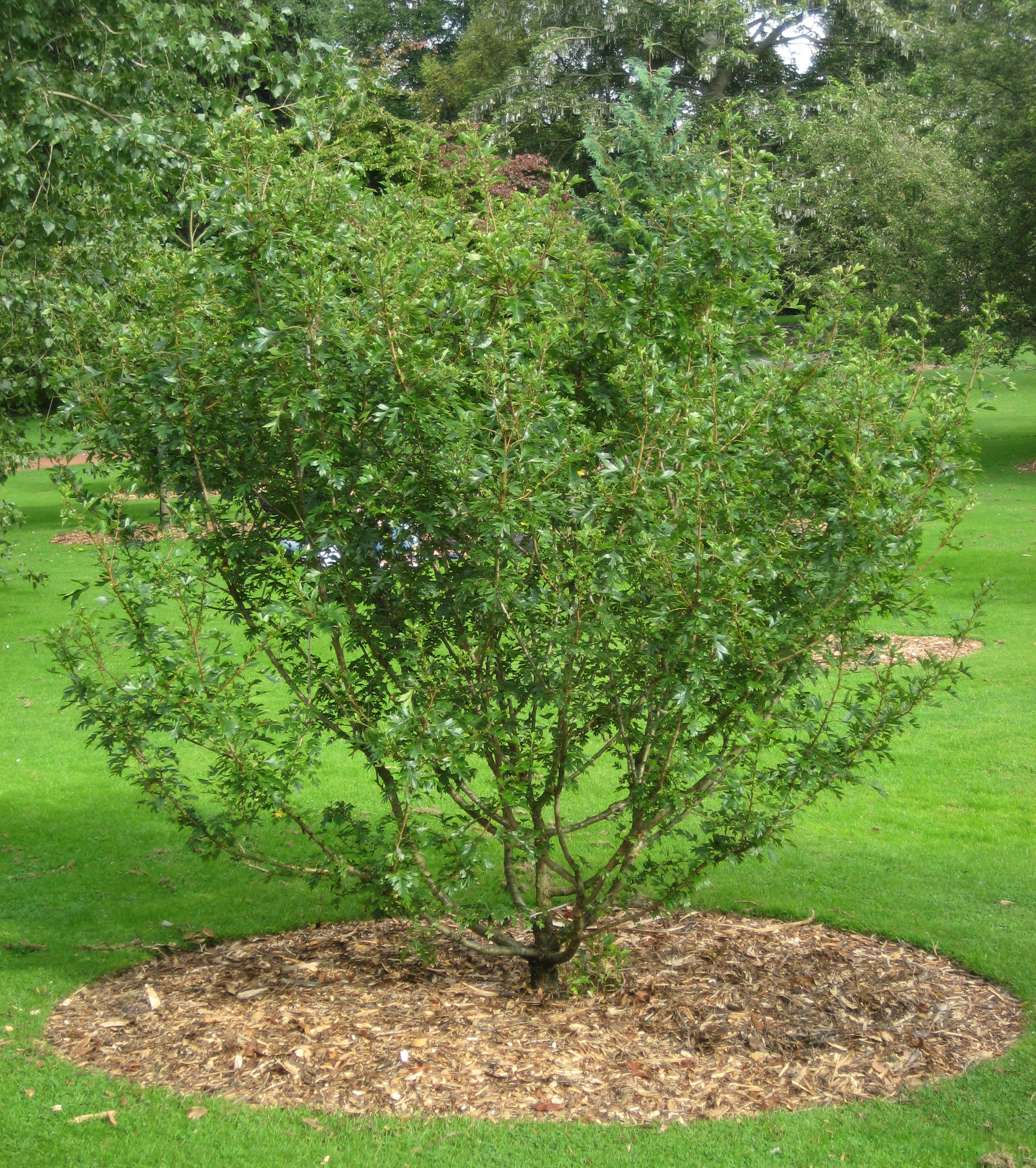 Chinese Hawthorn Royal Botanic Garden Edinburgh: Accession number 1998.1985 A